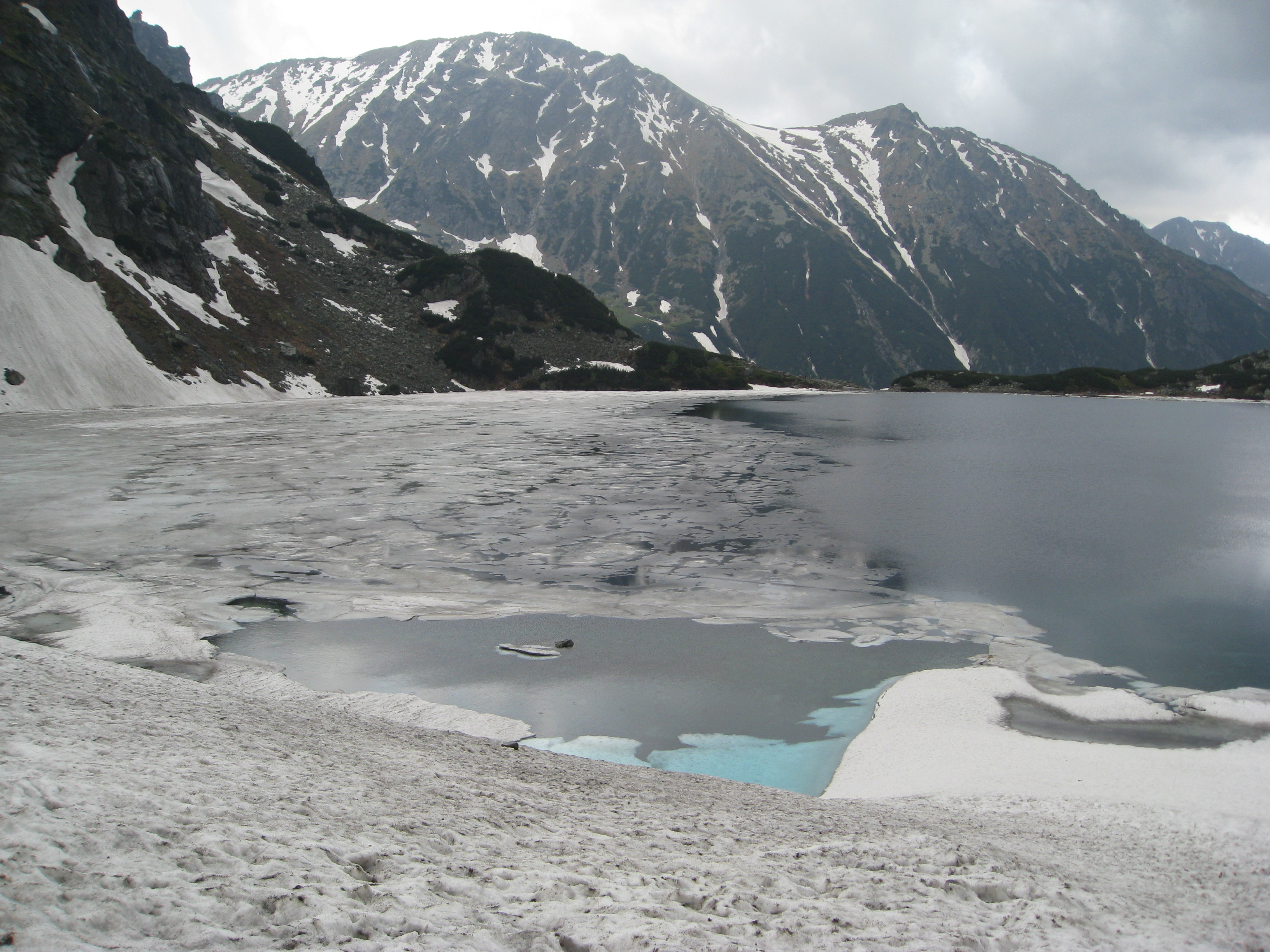 Czarny Staw pod Rysami, taken from the path from Morskie Oko to mount Rysy.